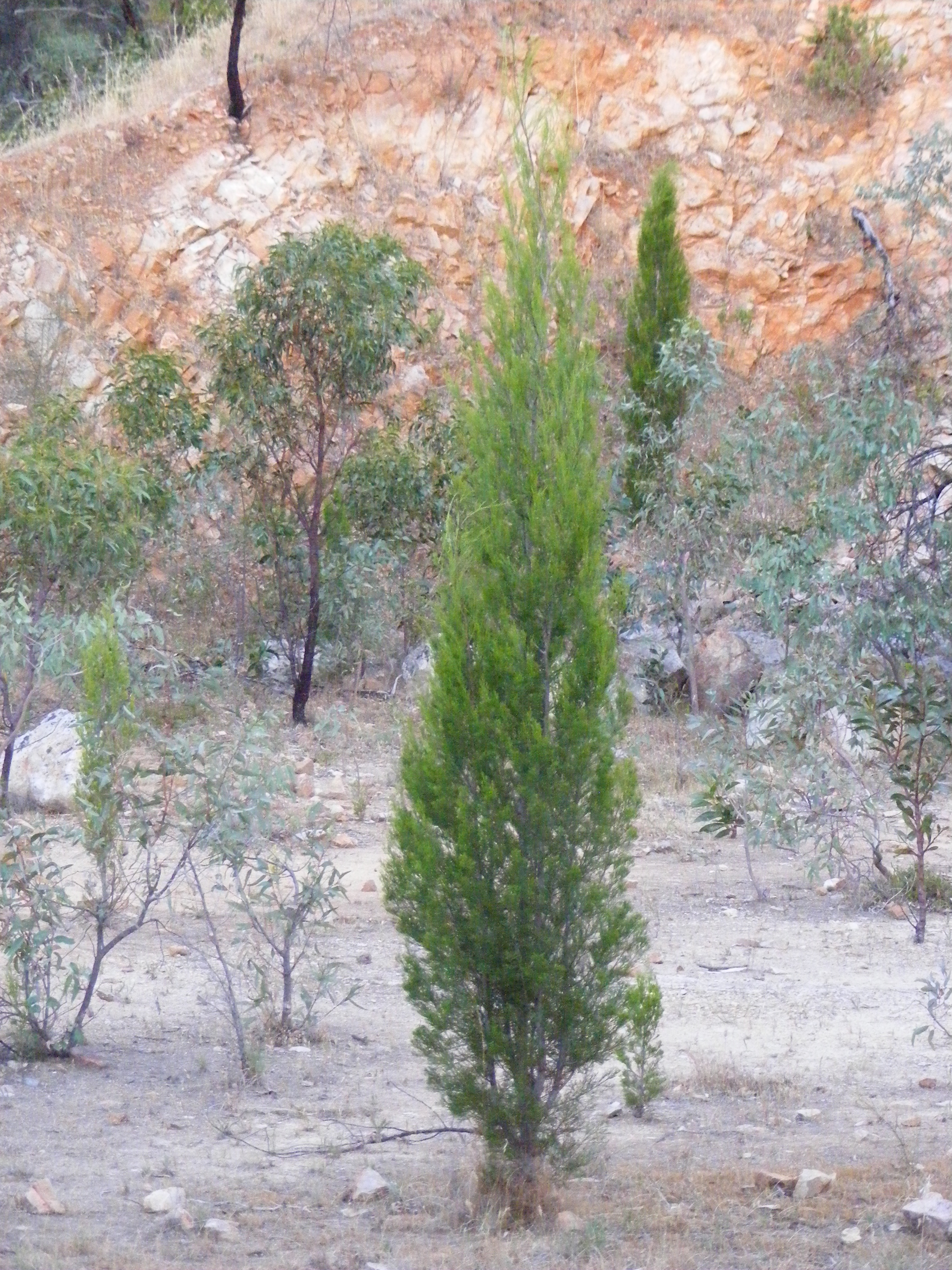 Callitris preissii (syn. Callitris gracilis) - Australian Native cypress-pine. At Kopper's quarry, Anstey Hill recreation Park, Adelaide, South Australia